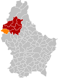 Own edit of Kanton WiltzLocatie.png